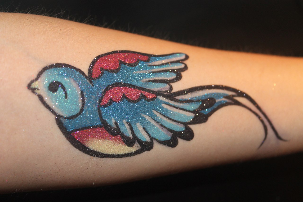 глиттер тату